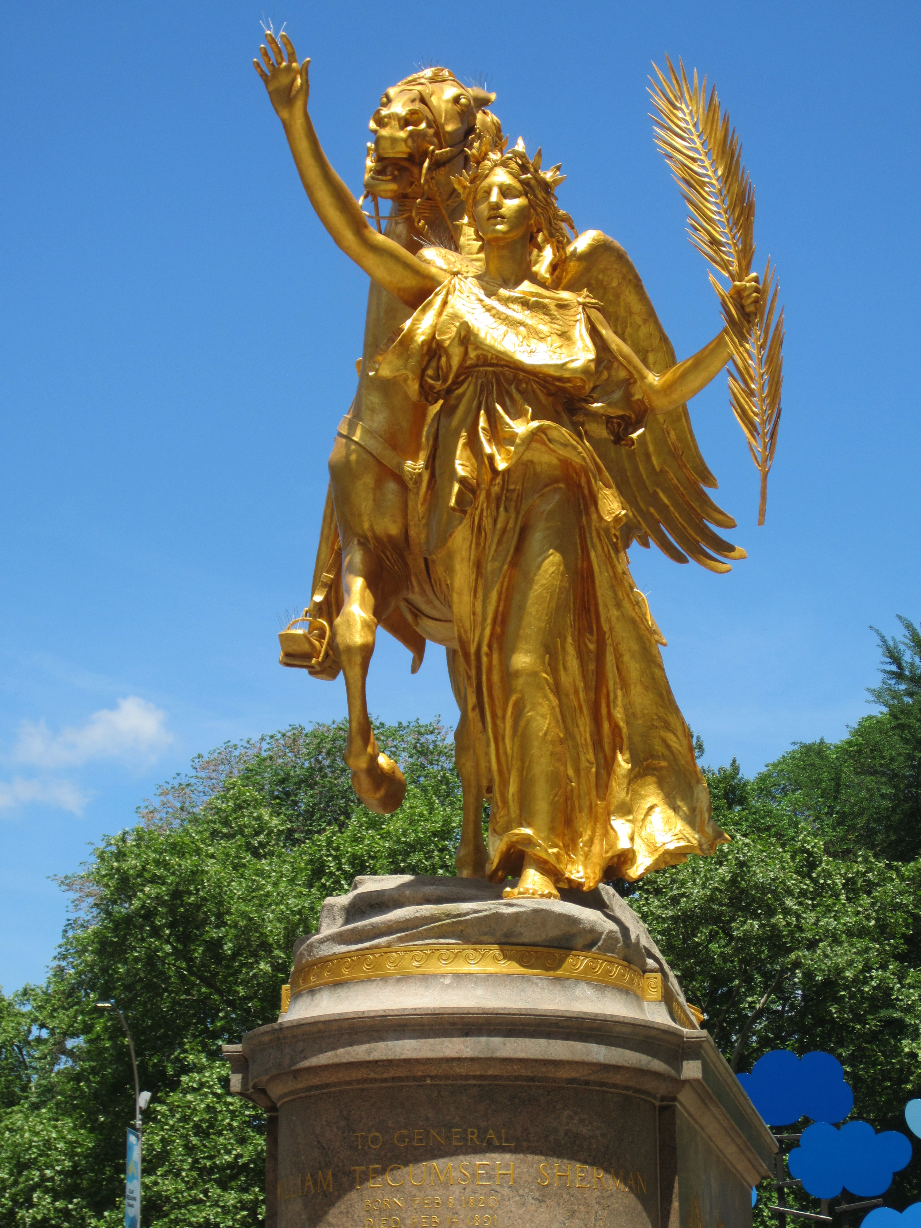 Grand Army Plaza, NYC (2014)